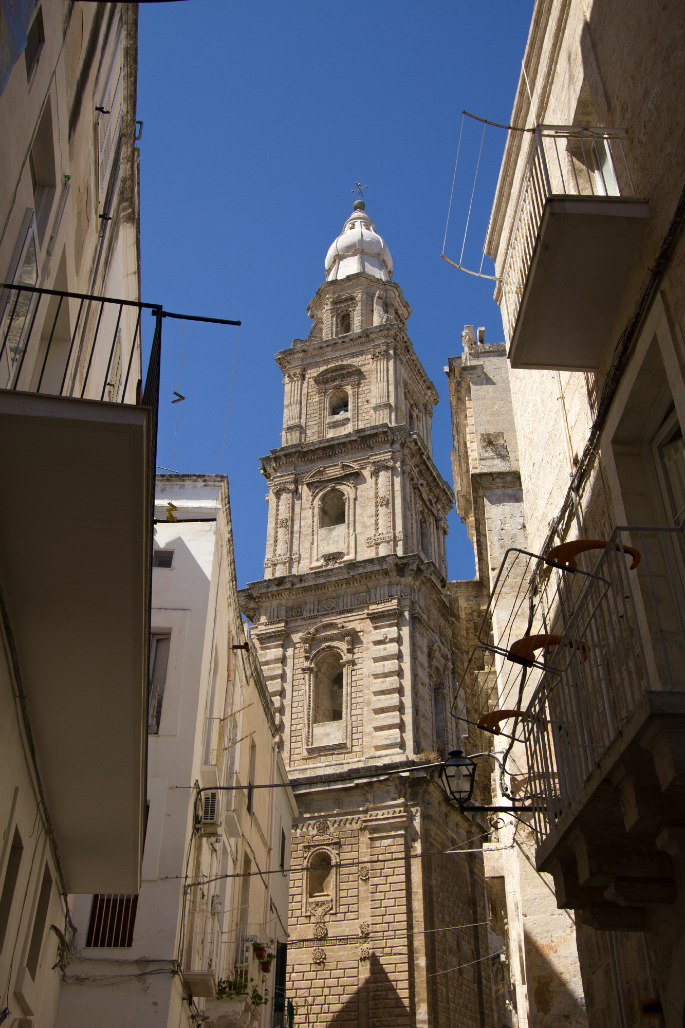 Basilica concattedrale di Maria Santissima della Madia, Monopoli